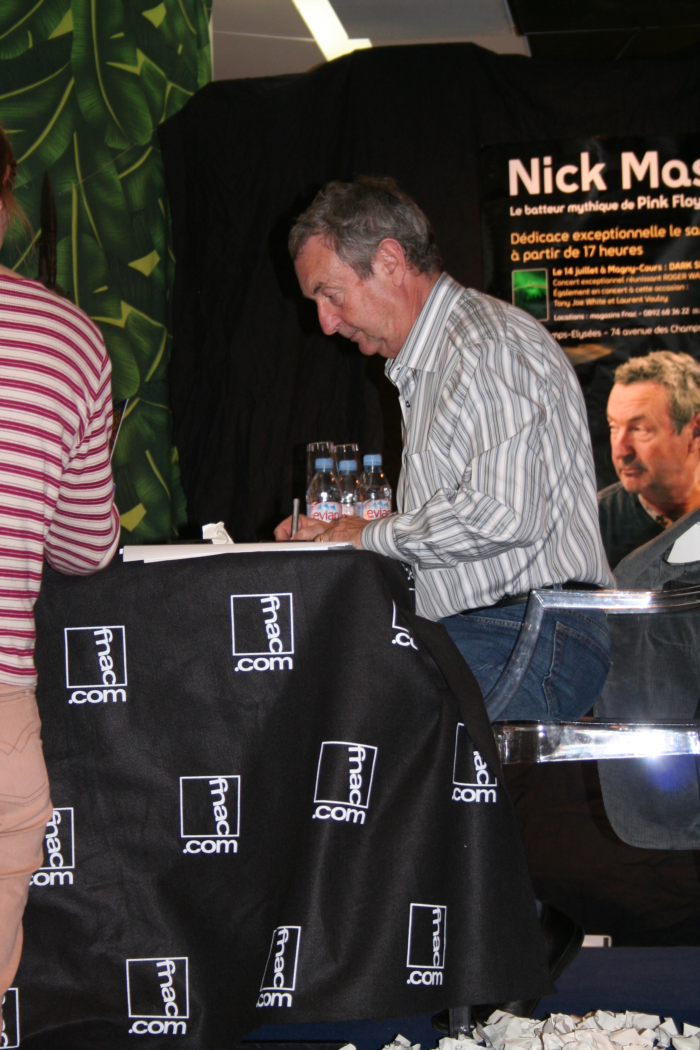 Autograph session with Nick Mason at Fnac des Champs-Élysées (Paris, France).